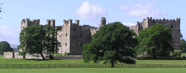 Raby Castle, County Durham, England, Great Britain.